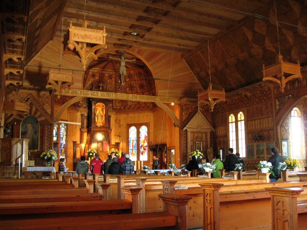 Church in Kościelisko, Poland